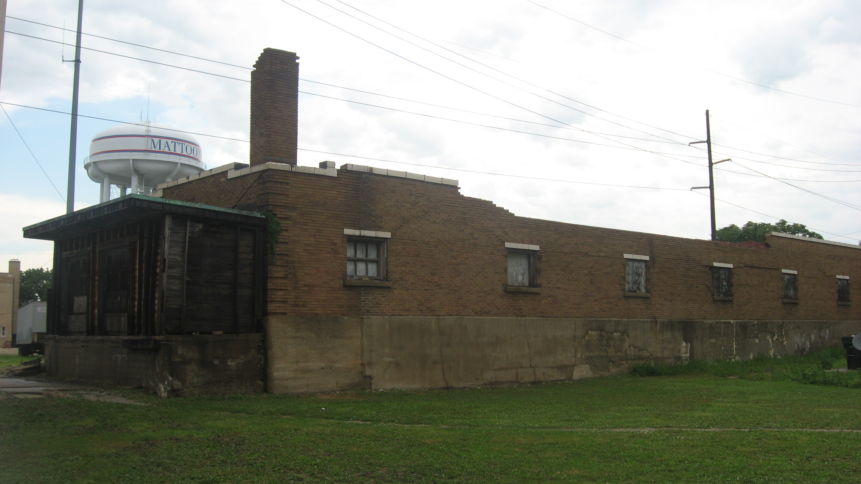 Southern side of the Railway Express Agency Building, located at 1804 Western Avenue in Mattoon, Illinois, United States. Built in 1918, it is listed on the National Register of Historic Places. In disrepair when this photo was taken, the building was demolished less than a week later.